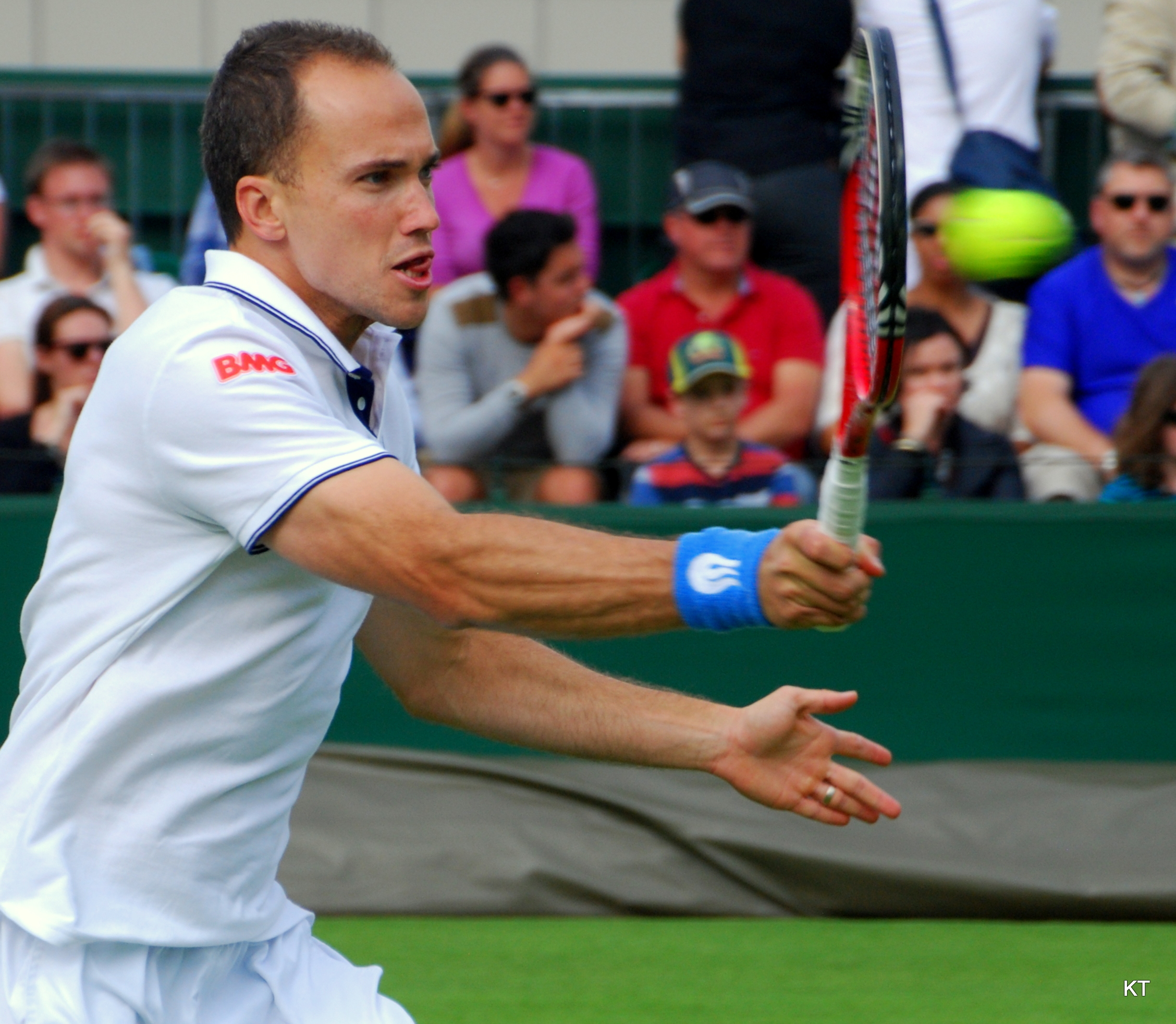 Bruno Soares during his first round doubles match with Alexander Peya against Eric Butorac and Andy Ram. Peya and Soares won 6-4, 3-6, 6-3, 6-4. Day 2 of Wimbledon 2013.